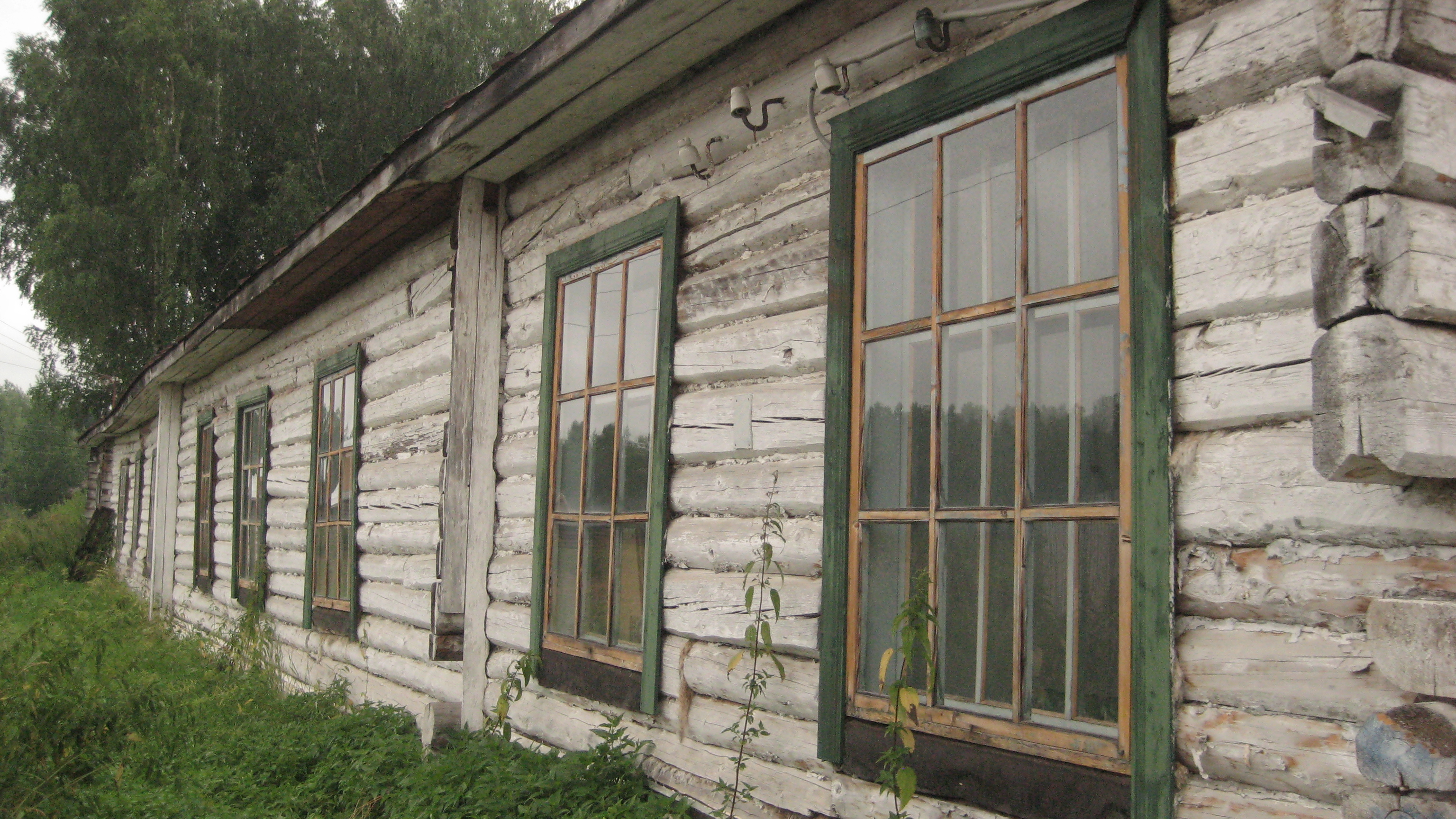 A former Gulag-building, part of the recent Gulag memorial at Perm-36